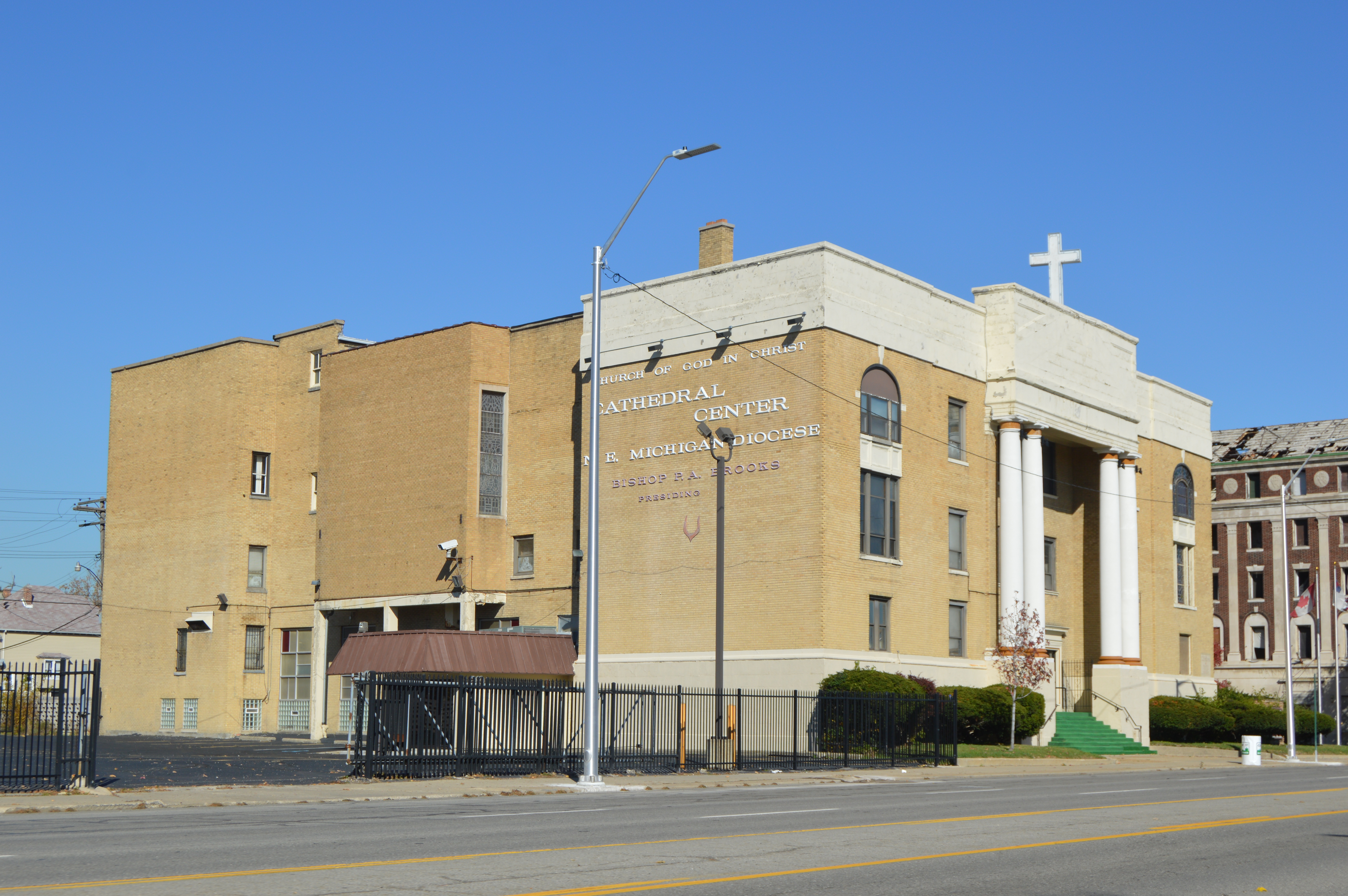 Front and western side of the cathedral for the Northeastern Michigan Jurisdiction (i.e. diocese) of the Church of God in Christ, located at 10325 E. Jefferson Avenue in Detroit, Michigan, United States.